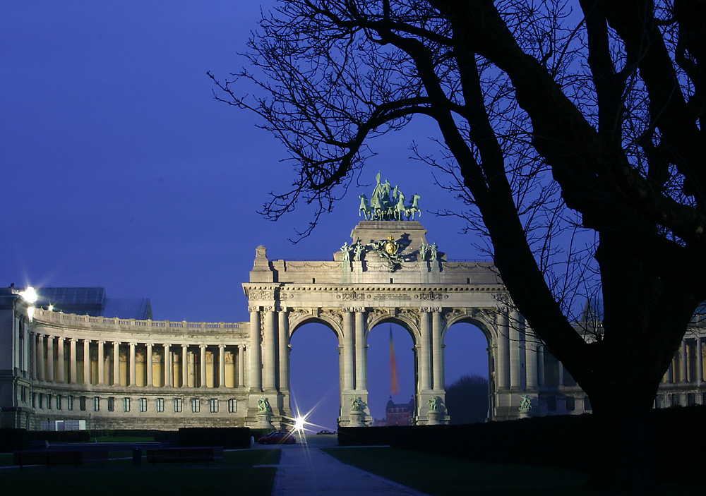 Brussels, Jubelpark Arc at night